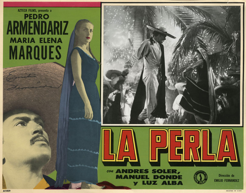 Theatrical poster for the 1947 theatrical release of the film La perla, the Spanish-language version of The Pearl. The film is based on John Steinbeck's 1947 novella of the same name. The English-language version of the film, simultaneously produced by the same cast and crew as the Spanish-language version, premiered in the United States the following year.